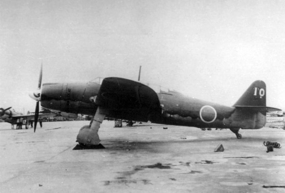 A captured Imperial Japanese Navy Aichi B7A2 Ryusei ("Grace") on the ground.